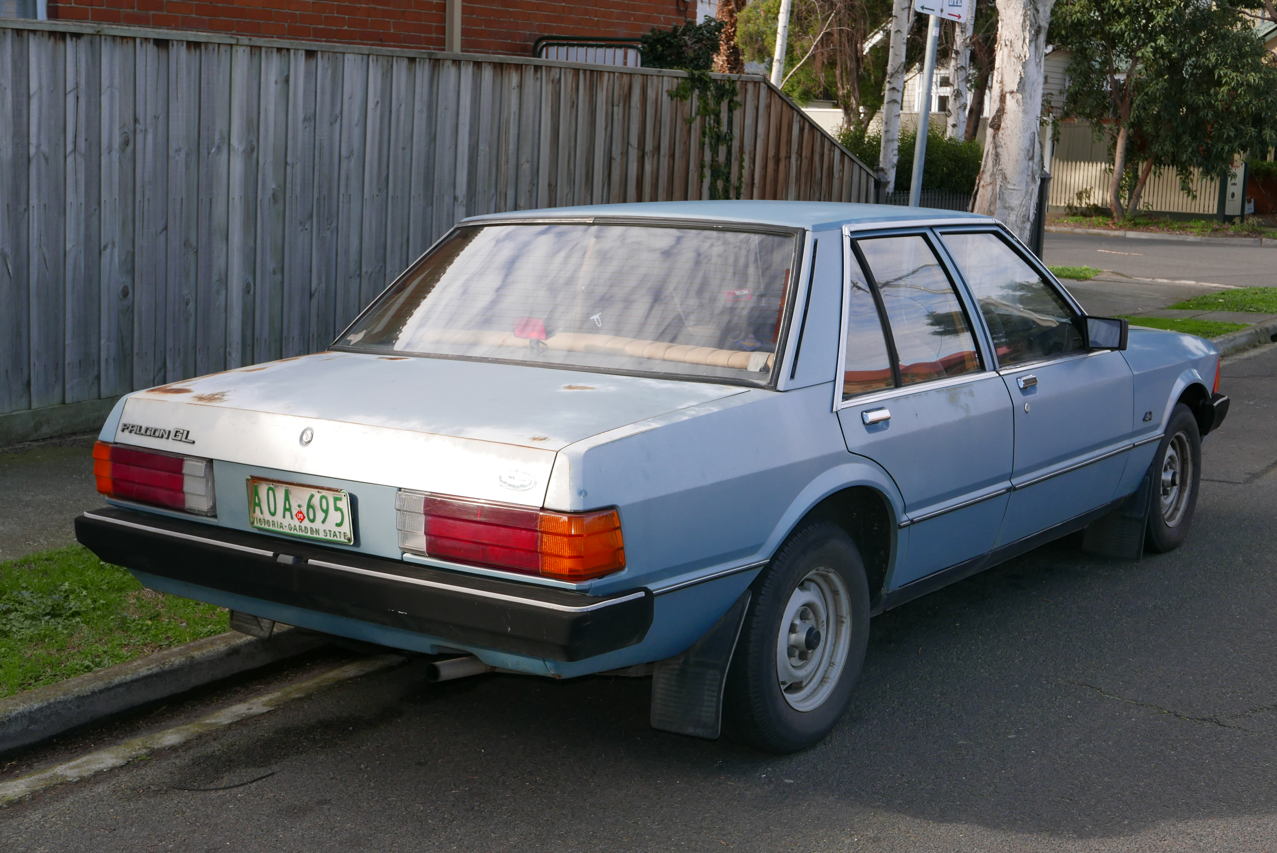 1979 Ford Falcon (XD) GL sedan. Photographed in Northcote, Victoria, Australia. Vehicle registration enquiry results Jurisdiction Victoria Registration AOA695 Chassis code JG23WS61184C Engine code JG23WS61184C Compliance date Not available Year of manufacture 1979